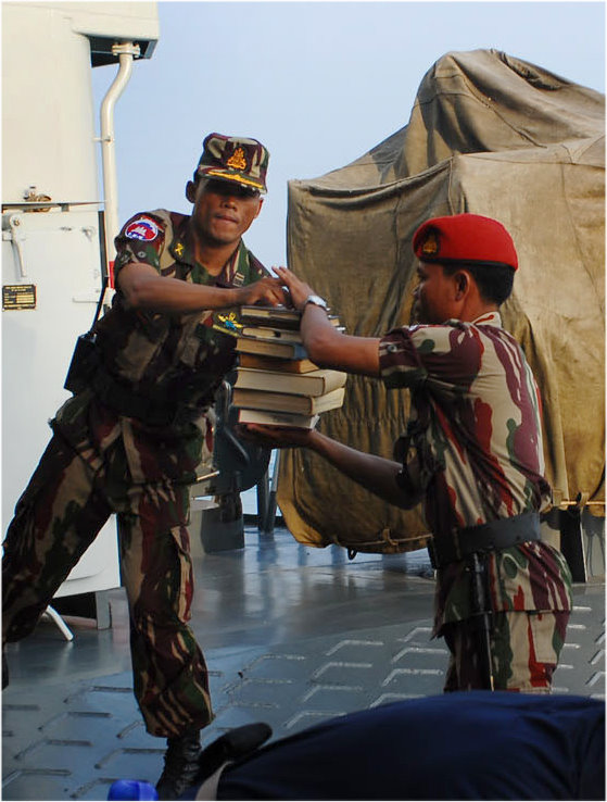 911 Para Commandos help loading books for a primary school in Sihanoukville, Cambodia, onto a Royal Cambodian Navy landing craft